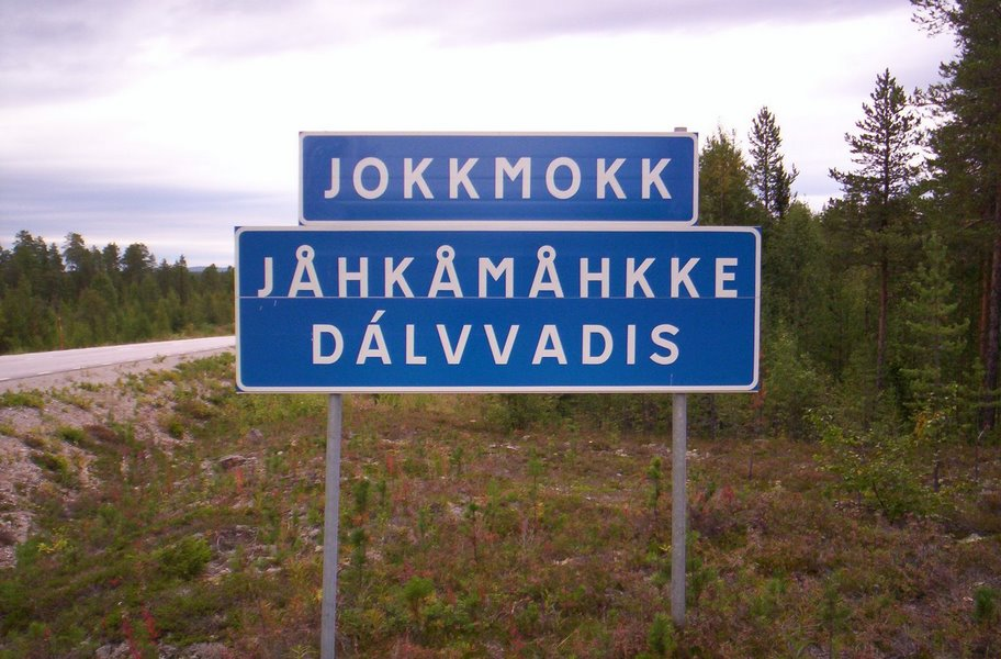 Table of Jokkmokk, Sweden.